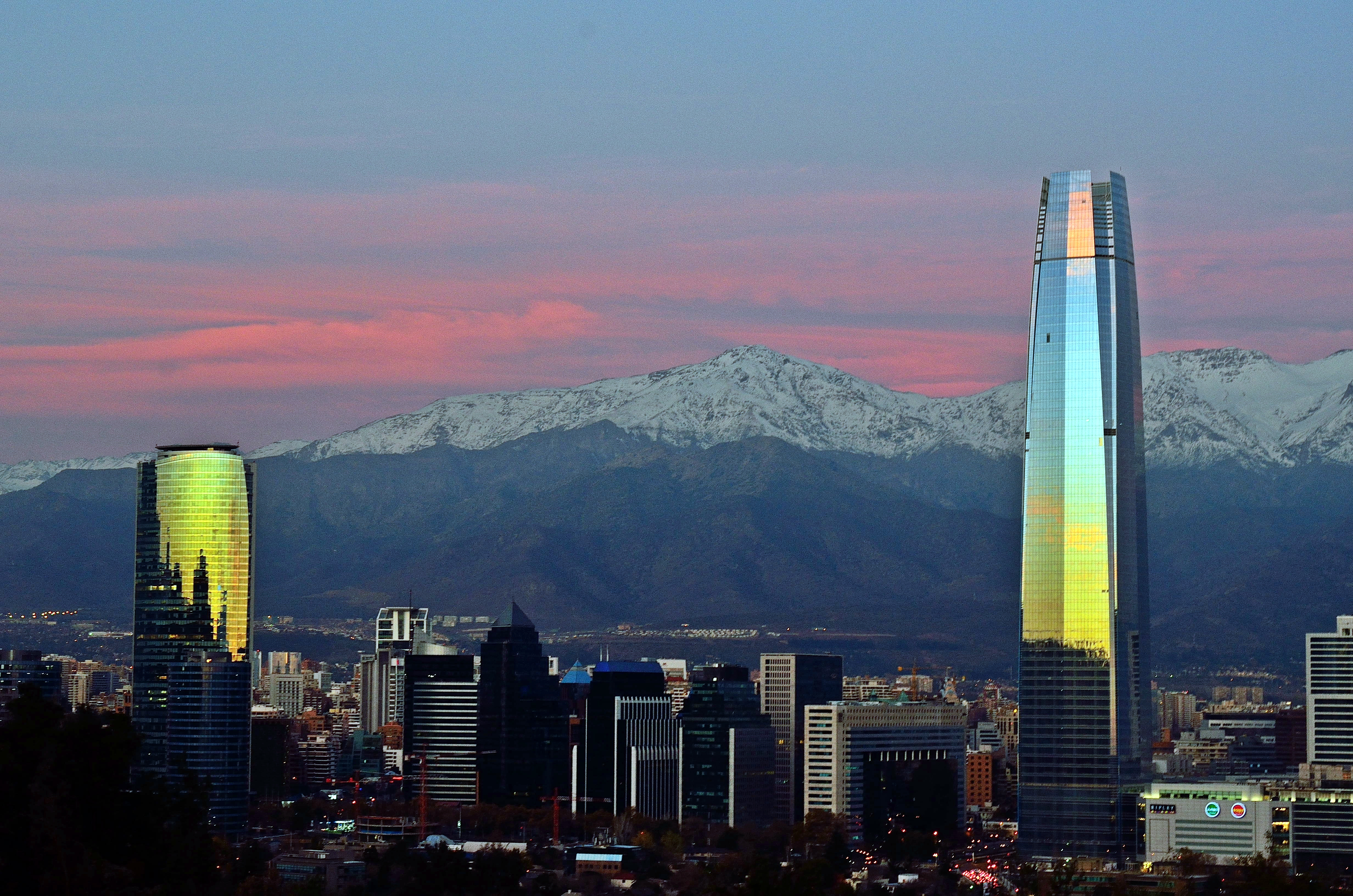 Costanera Center, Santiago, Chile